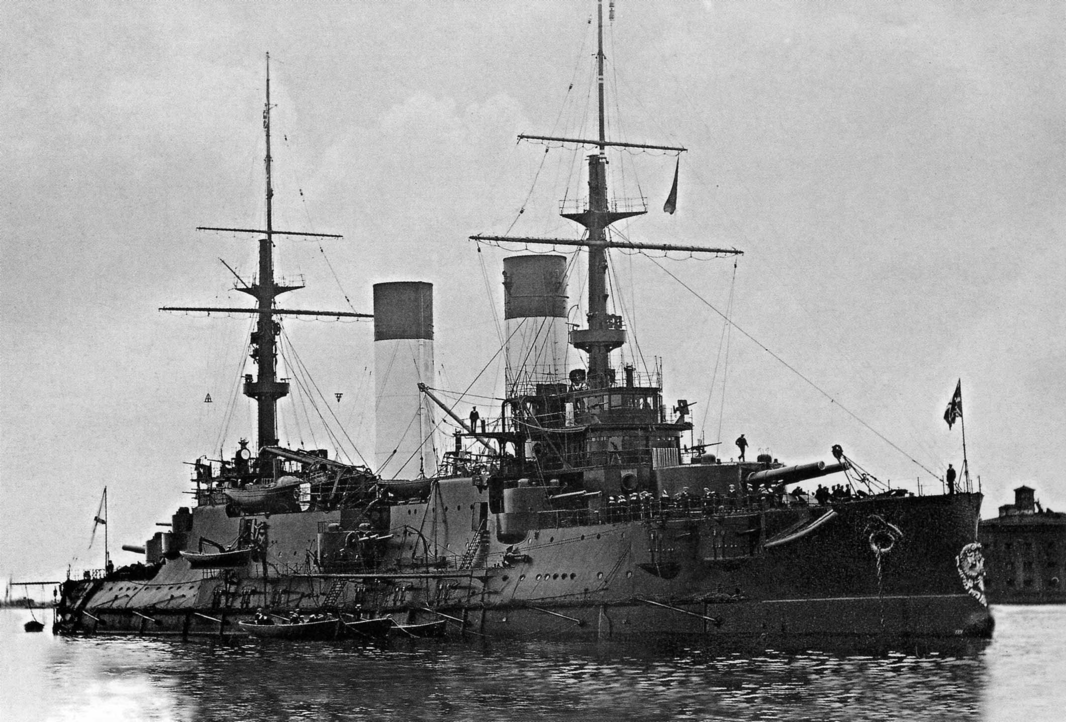 Imeprial Russian battleship Imperator Aleksandr III in Kronshtadt, Augst 1904.